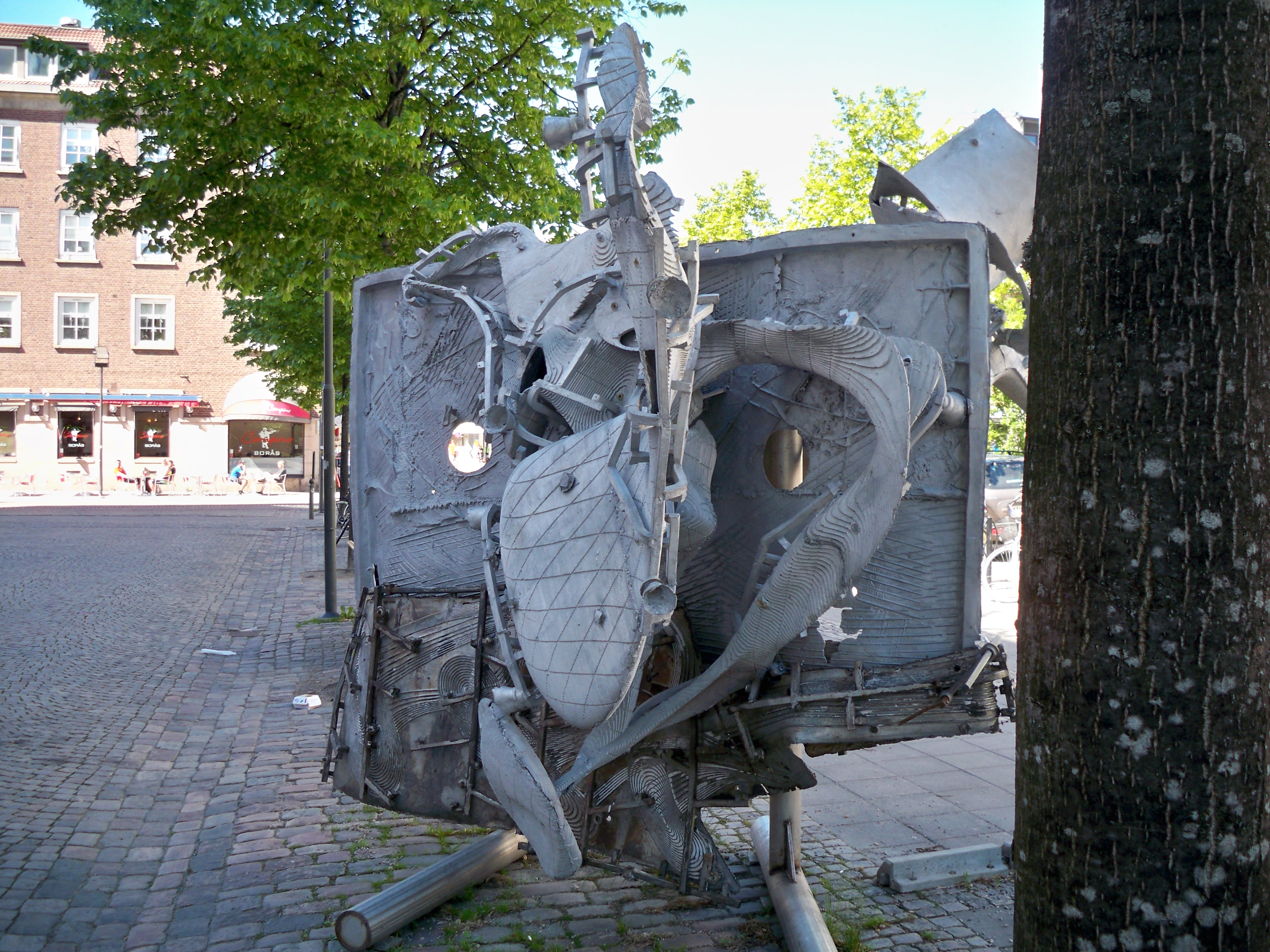 One aspect of the Frank Stella sculpture Catal Hüyük on Hallbergsplatsen in Borås, Sweden.